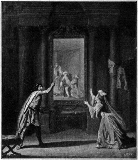 Scene from the opera "Zemir and Azor", after a painting by Pehr Hillseström.